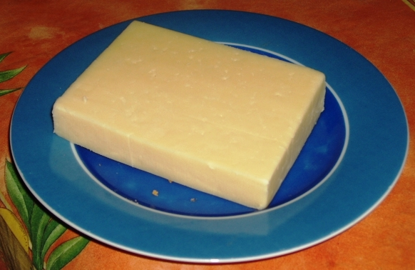 Ayrshire cheese